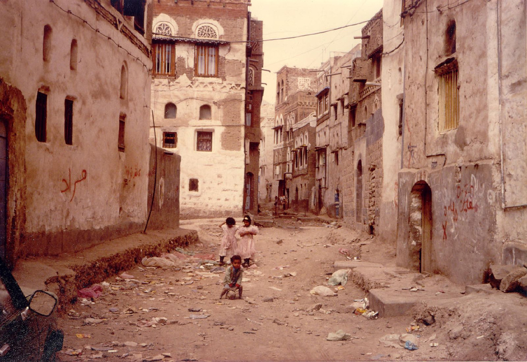 Backstreet in Sana'a, Yemen "I should immediately add that most streets in Sana'a are tidy enough. Therefore this street stands out. (Sanaa Yemen)"